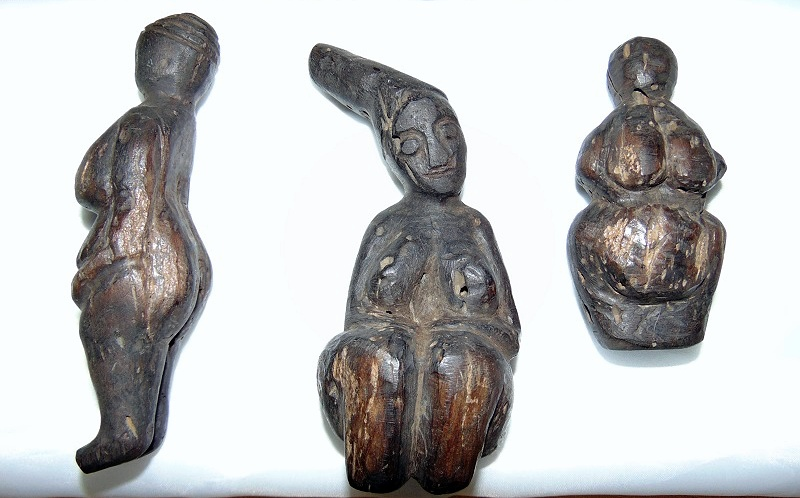 Venuses from Kangari Hills are statuettes of women and other artifacts made of water buffalos’ tusks. They were found in Kangari Hills caves in Sierra Leone. The artifacts date back to the Middle Paleolithic period, more specifically to 45,000 BC. According to available information, the figures are the oldest known artifacts in Africa.